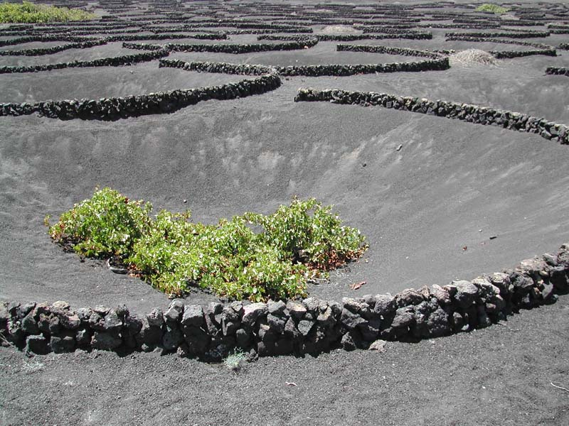 The wine-growing district La Geria on Lanzarote